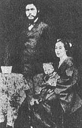 Japanese Prime Minister Gonnohyōe Yamamoto and his wife Tokiko.